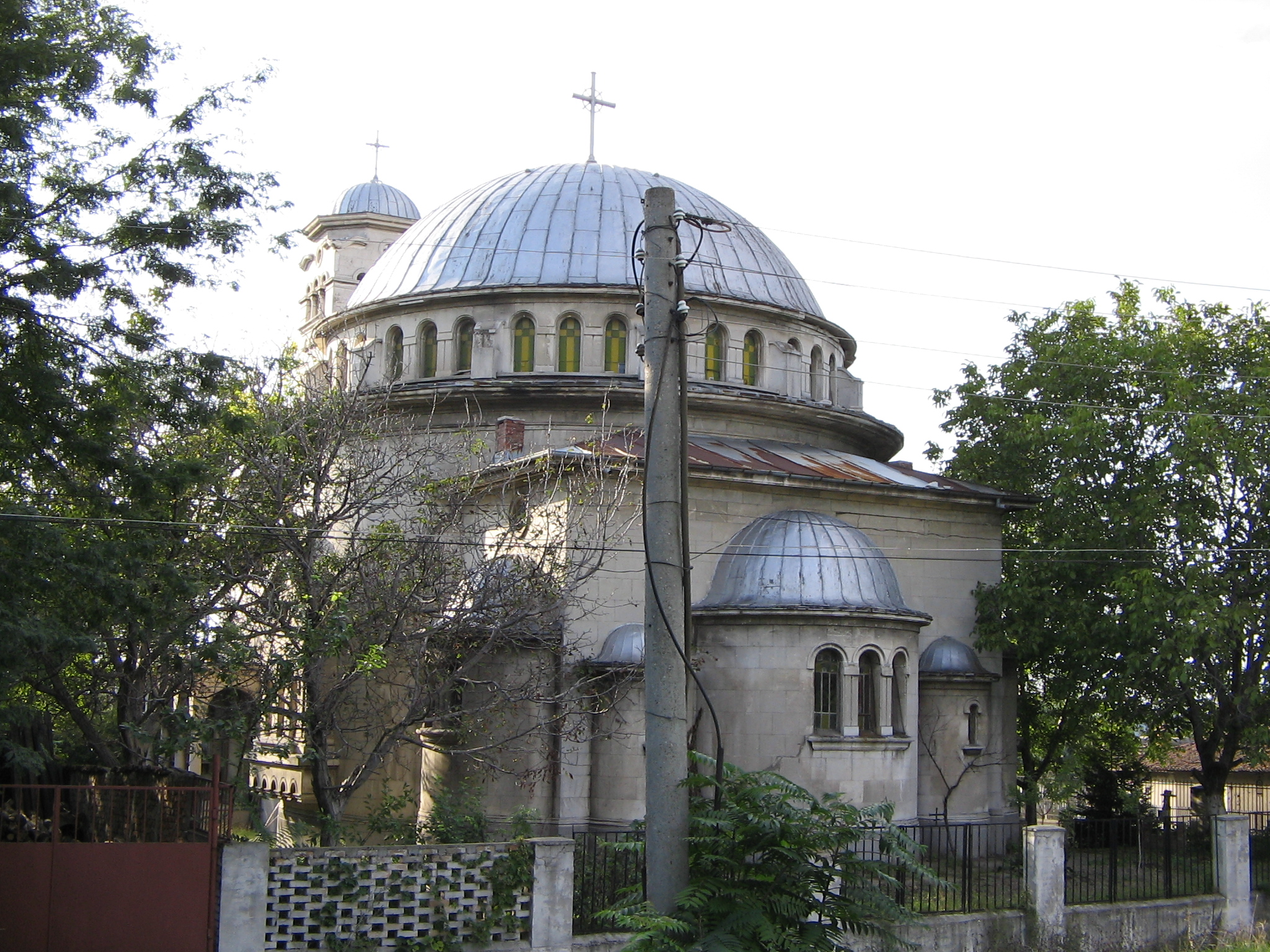 Church "Saint Petka" in Rousse, Bulgaria